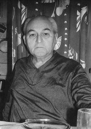 Někdy v roce 1980